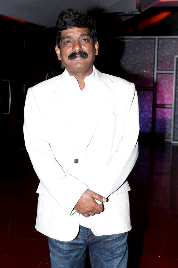 Nitan desai premiere marathi film